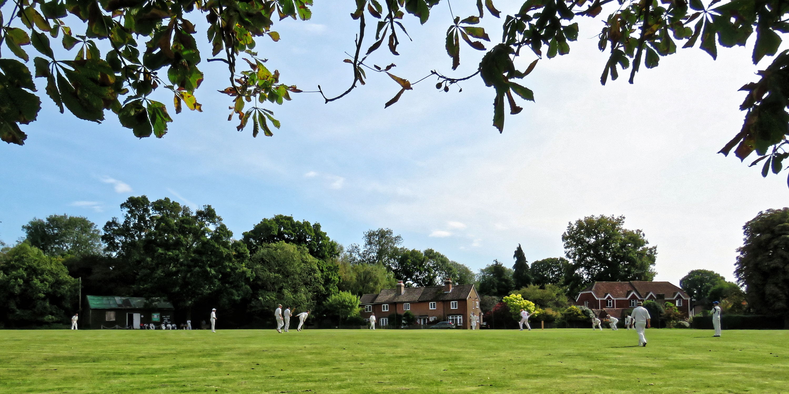 A public friendly Sunday cricket match between Nuthurst Cricket Club (which represents Nuthurst parish), and the East Dulwich, Middlesex-based Royal Challengers (batting) on the village green cricket ground at Mannings Heath in West Sussex, England.Camera: Canon PowerShot SX60 HSSoftware: File lens-corrected, optimized, perhaps cropped, with DxO OpticsPro 11 Elite, and likely further optimized with Adobe Photoshop CS2.